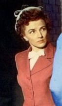 Phyllis Coates as Lois Lane in the 1951 theatrical feature "Superman and the Mole Men" . This image is assumed to be in the public domain as no copyright notice is in evidence.